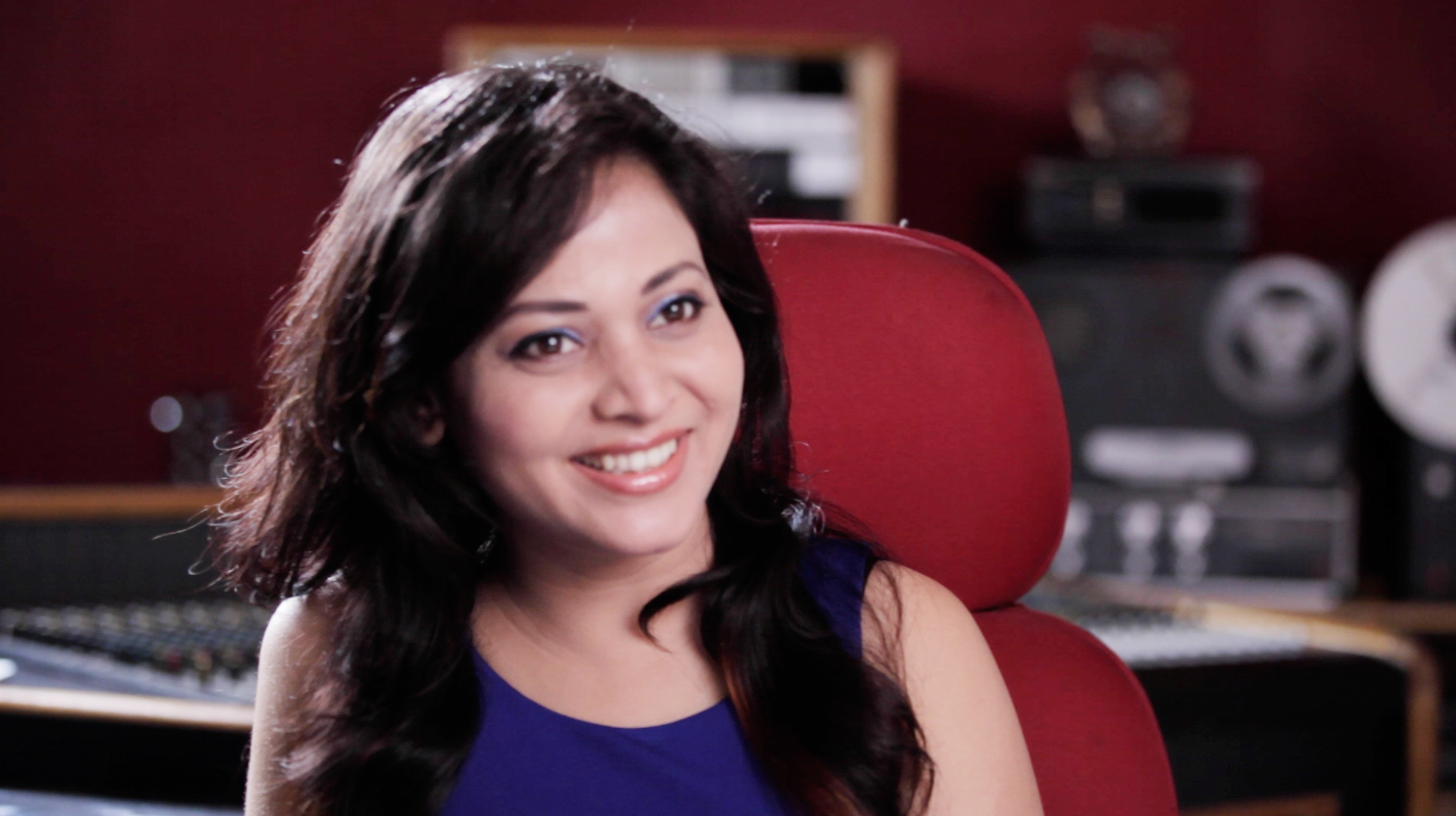 Actress Zerifa Wahid gives a behind-the-scenes interview for the Axomiya language version of the TeachAIDS animation at Auditek Digital Recording Studio in Guwahati, Assam.